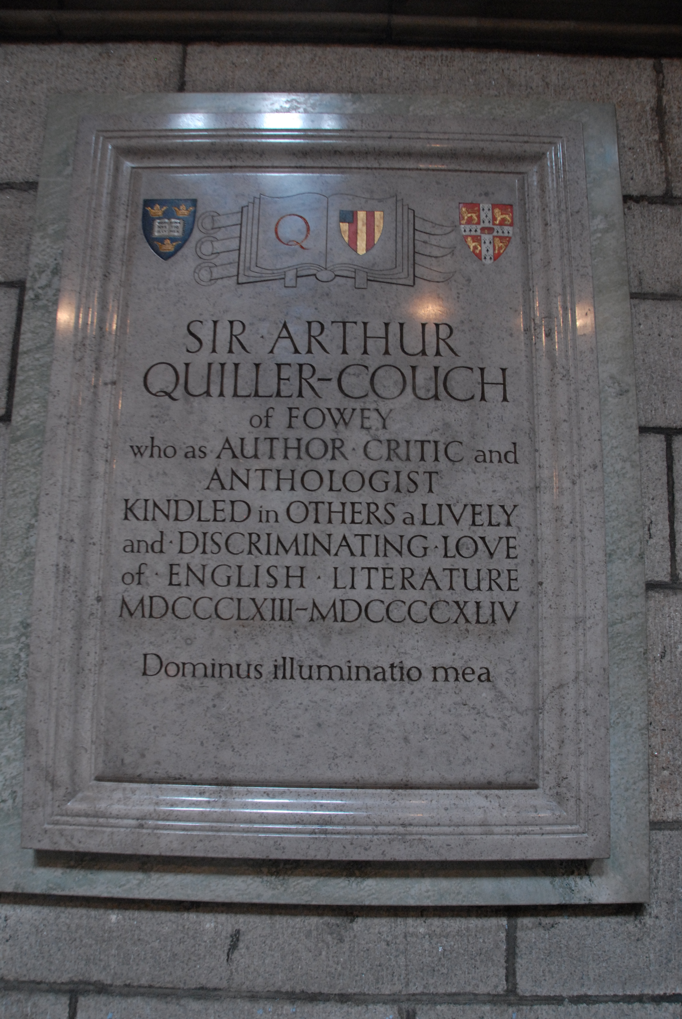 Memorial to Arthur Quiller-Couch in Truro Cathedral